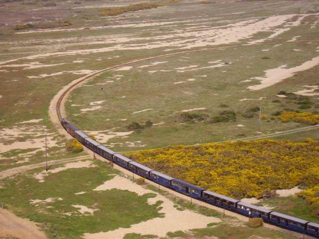 Train setting off from Dungeness Viewed from the Old Lighthouse, a train heads round the large loop away from Dungeness station on the Romney, Hythe & Dymchurch Railway and back towards Hythe. The sparse vegetation on the stony substrate shows up well from this height.